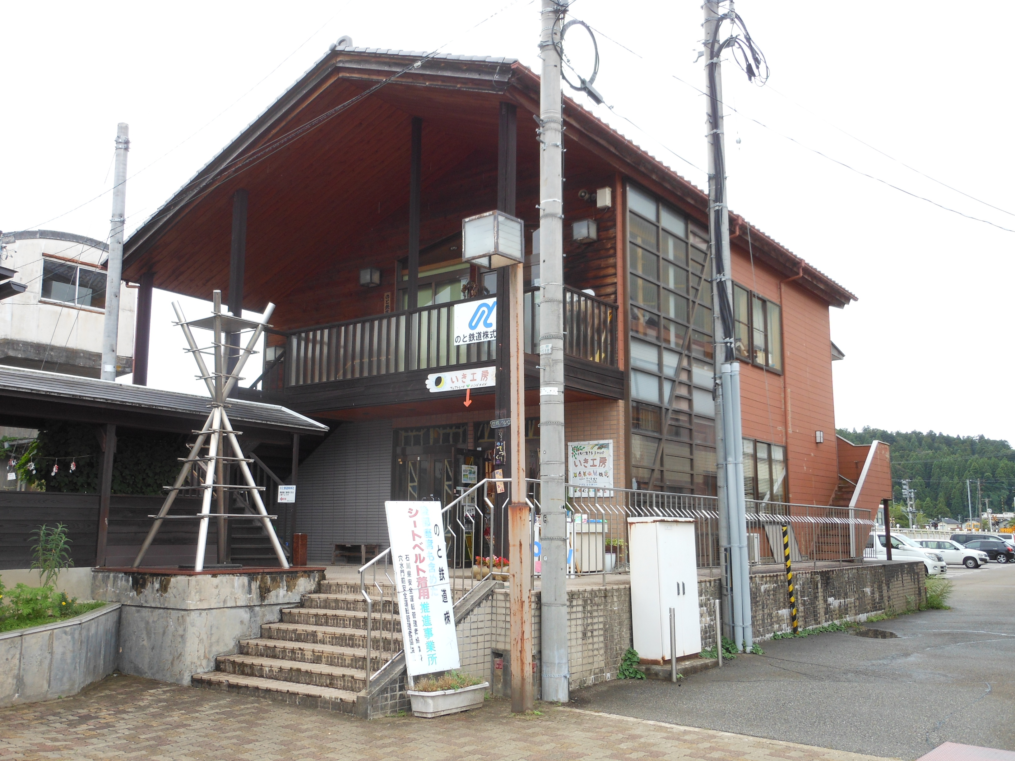 This is the head office of NotoTetudou Corporation in Anamizu, Ishikawa, Japan.